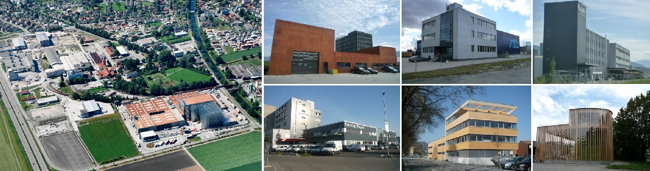 viscose industrial area